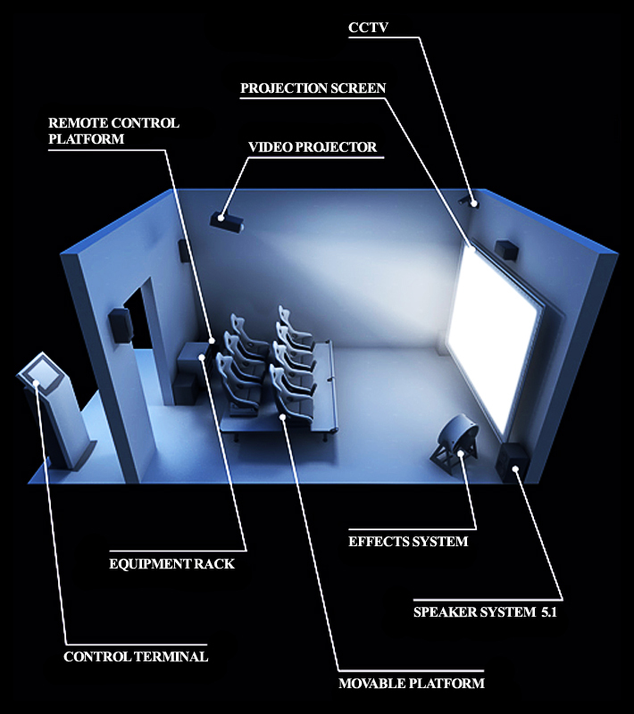 4D-theater